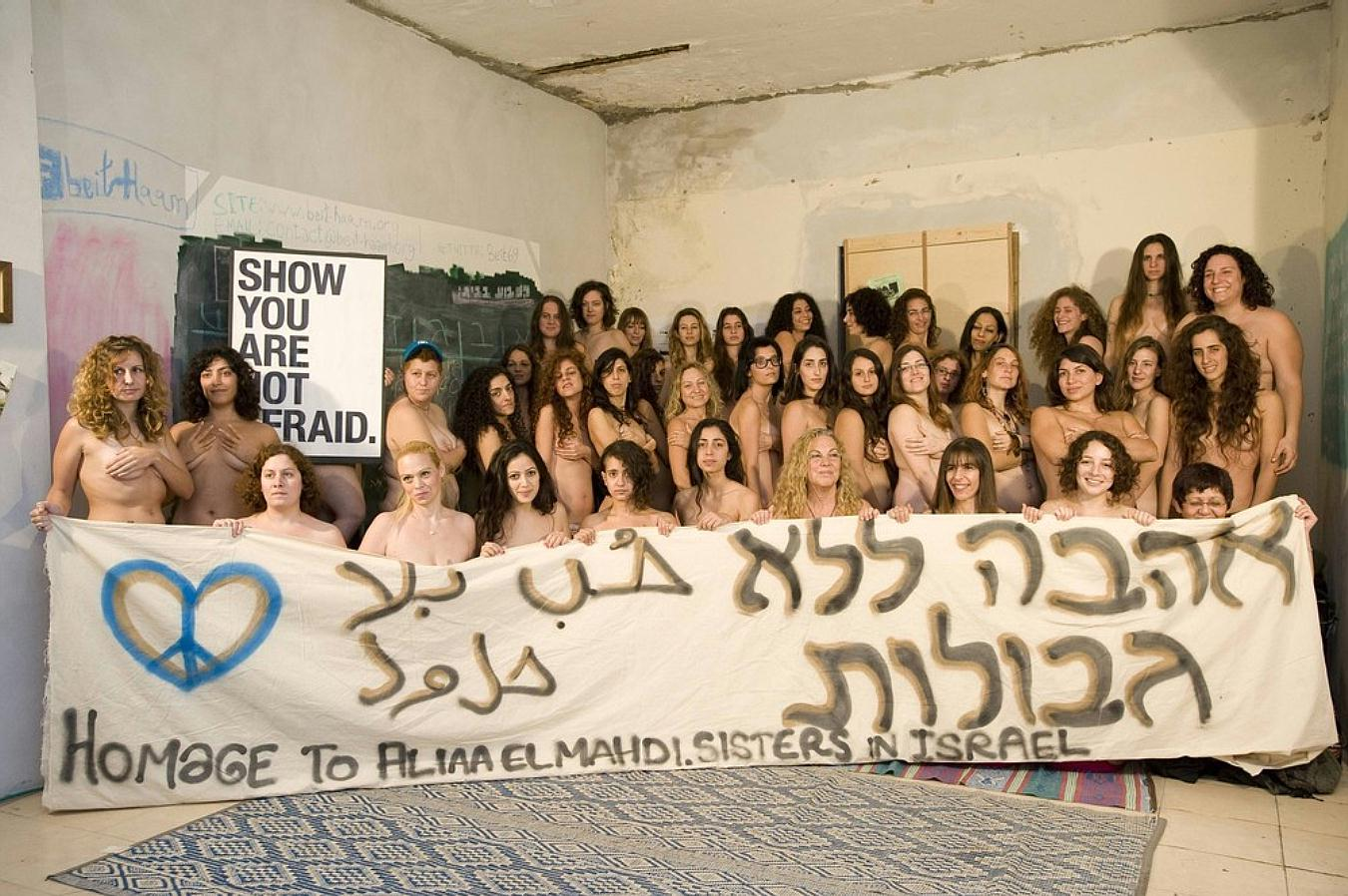 Naked Israeli women pose for a photograph in Tel Aviv, November 19, 2011, to show solidarity with Egyptian blogger Aliaa Magda Elmahdy, who put naked pictures of herself on the Internet, support free expression and protest against Islamic extremism. The banner reads: "Love With No Boundaries".